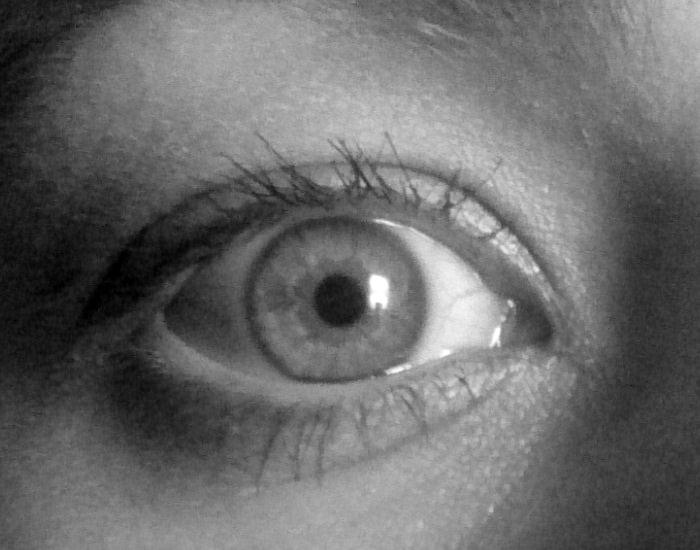 Picture of an eye